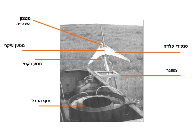 Tsipor 2 barbed wire breaching system